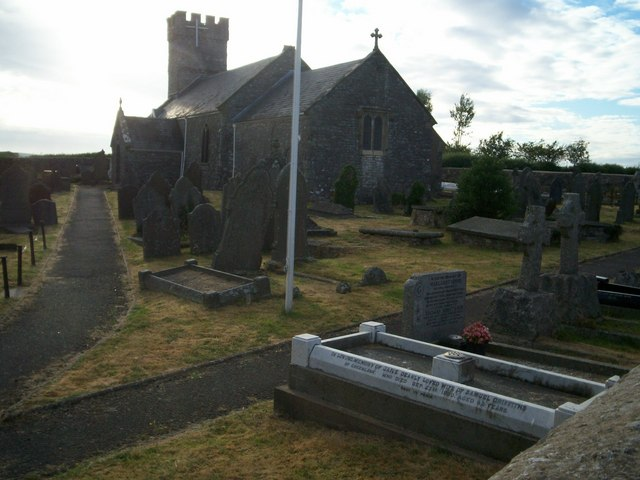 Church at Pennard.